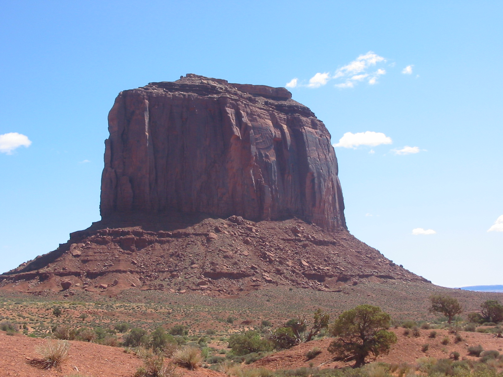 Monument Valley, (Merrick Butte, in Arizona), The major geology sequence, top to bottom -- layered, interbeds, Moenkopi Formation (locally with an erosion resistant-caprock of Shinarump Conglomerate (lowest Chinle Formation member)), upon cliffs, of De Chelly Sandstone, upon skirts of Organ Rock Formation.